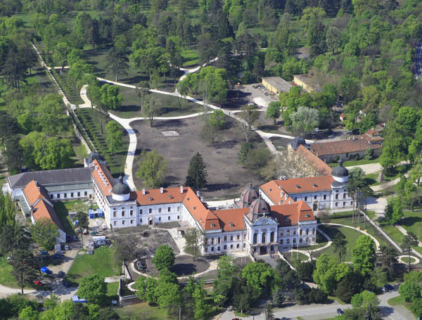 Gödöllő, Hungary, aerial photography This is a photo of a monument in Hungary. Identifier: 7051